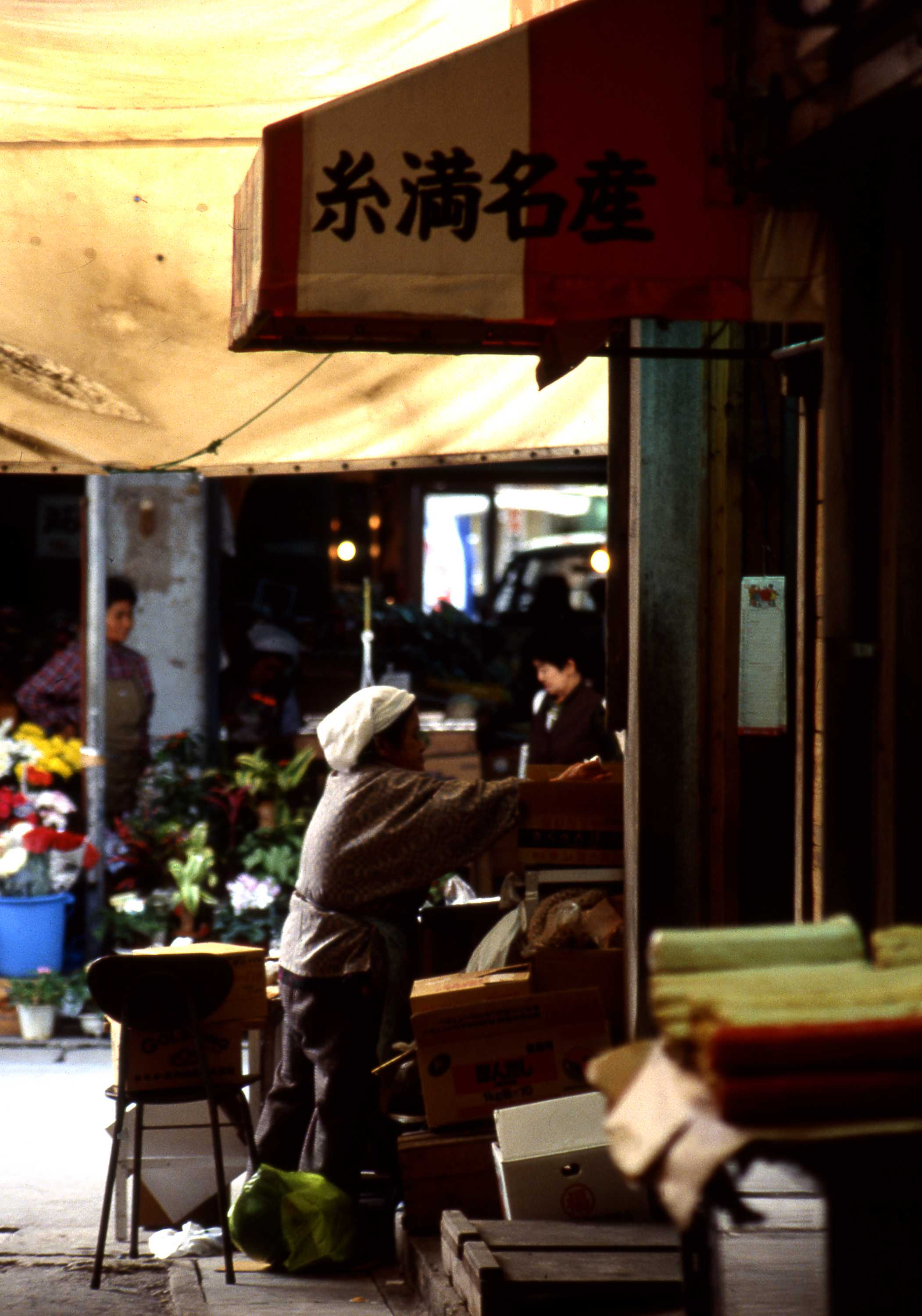 A market in Itoman, Okinawa Prefecture, Japan